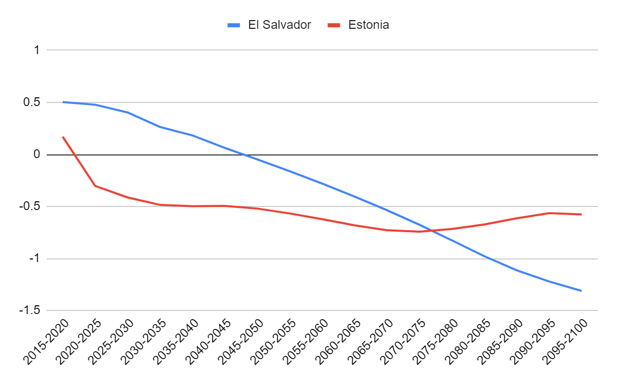 El Salvador population growth compared to Estonia